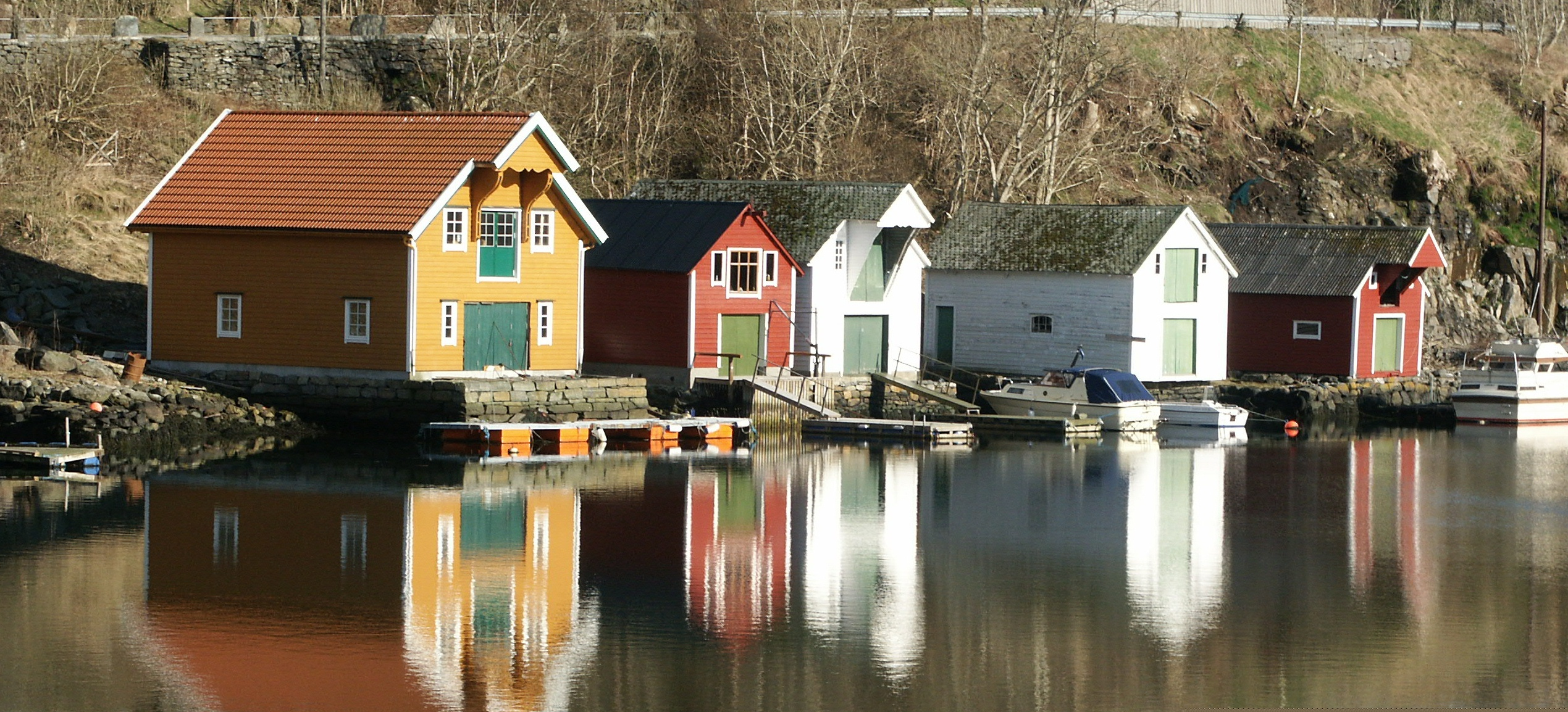 Boat houses at Bildøy, Sotra near Bergen, Norway.